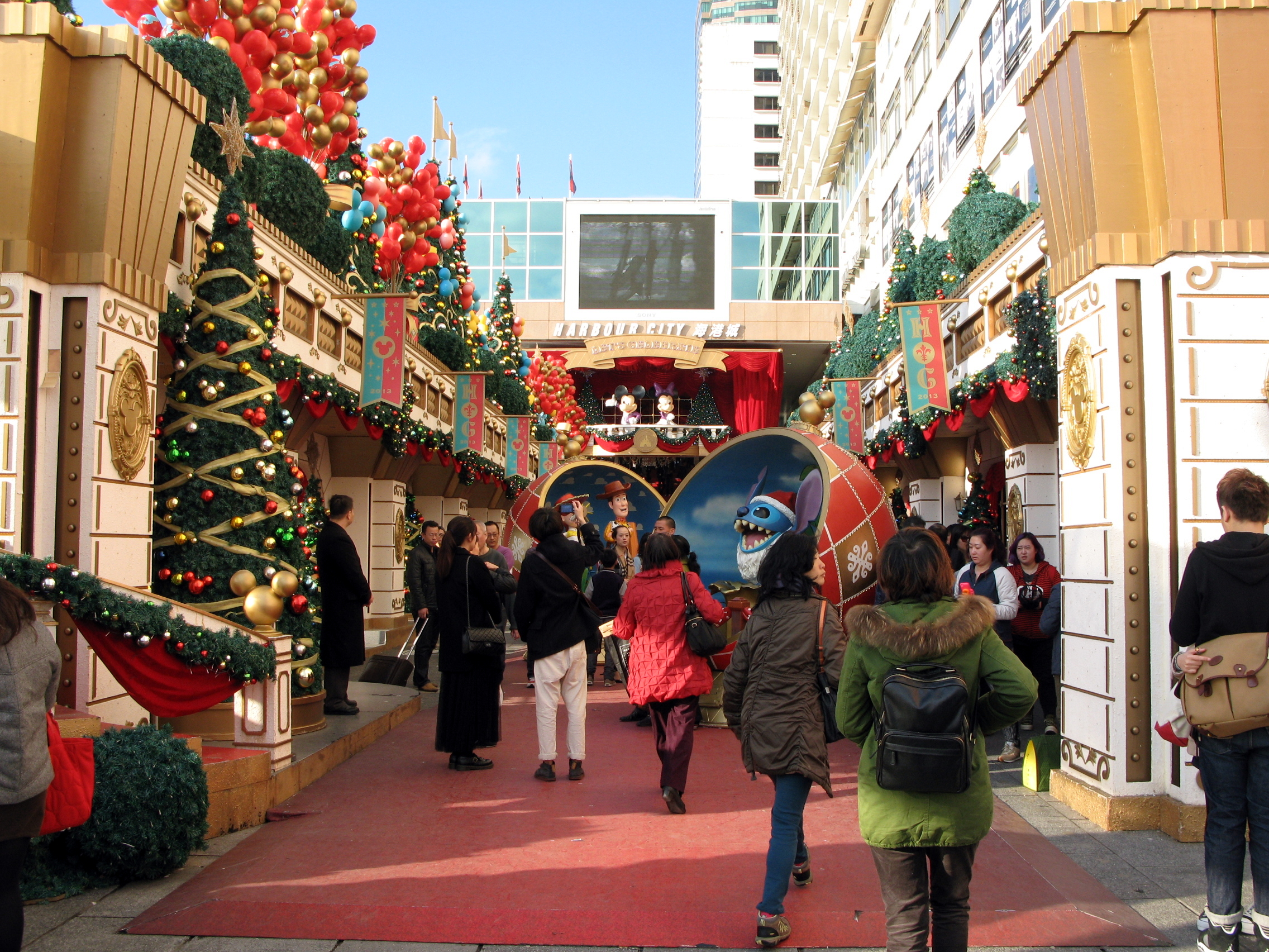 Harbour City Christmas decoration in 2013